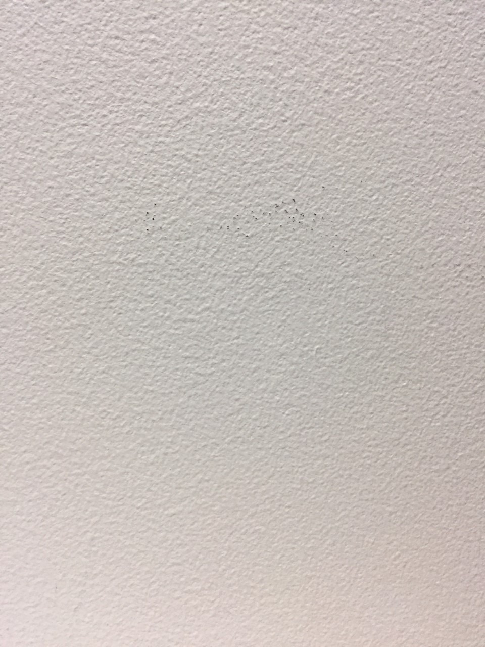 A wall with white paint